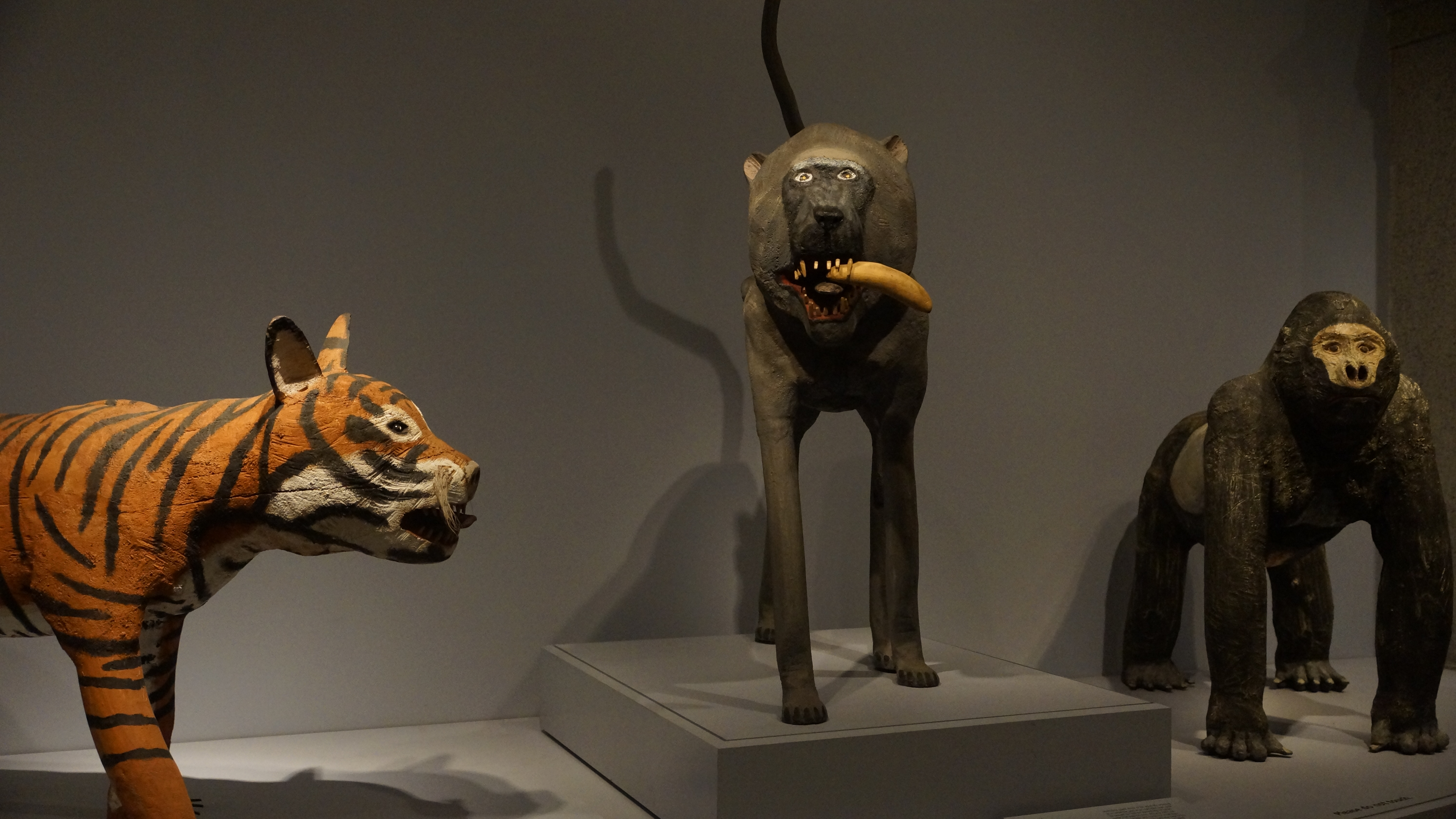 Felipe Archuleta exhibit at the Smithsonian American Art Museum.